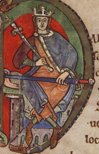 Detail from the charter of Malcolm IV, King of Scotland to Kelso Abbey showing Malcolm.